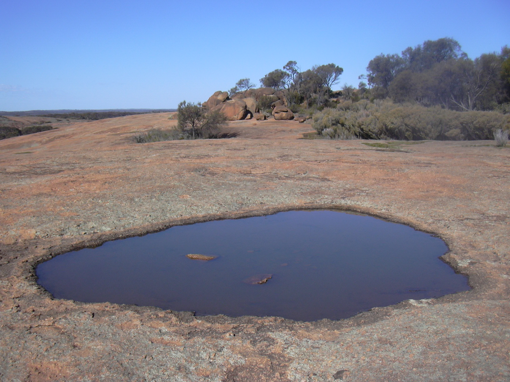 Hyden Rock surface (Western Australia)